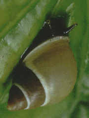 The fat guam partula or tree snail (Partula gibba) is a species of gastropod in the Partulidae family. It is found in Guam and Northern Mariana Islands.